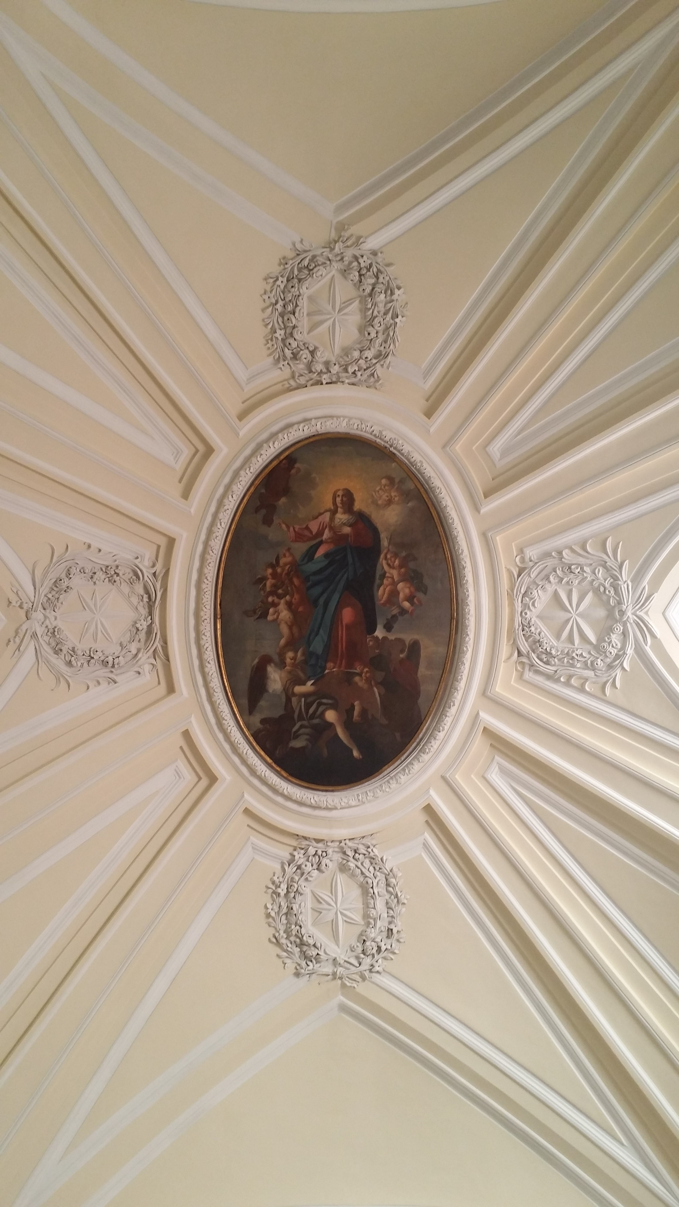 18th century oval painting set in the barrel vault of the central nave and representing the Madonna taken to heaven among the angels of Paradise